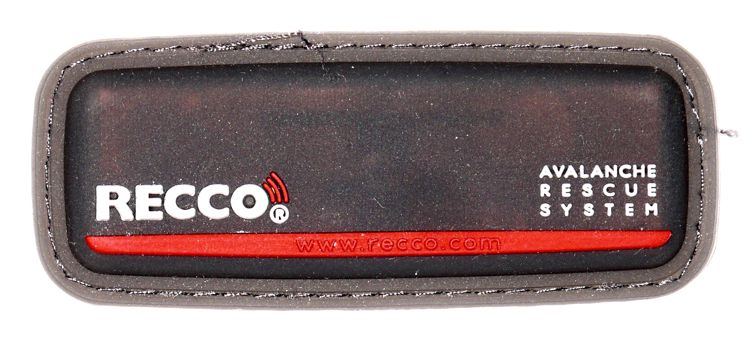 RECCO® reflector